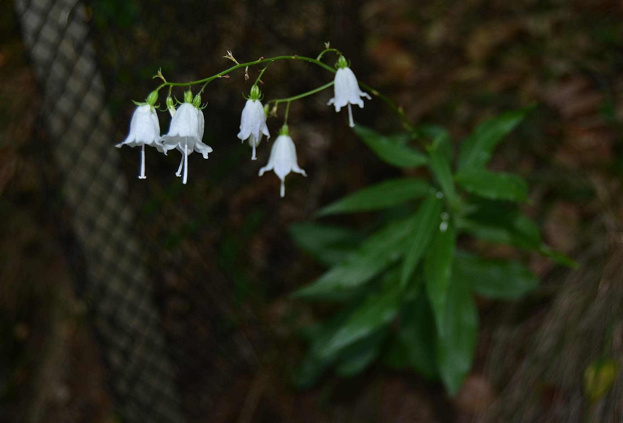 Adenophora lilifolia. National natural monument Bílichovské údolí in Kladno District, Czech Republic